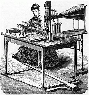 Machine-to-speech "Euphonia" as demonstrated in London in 1846